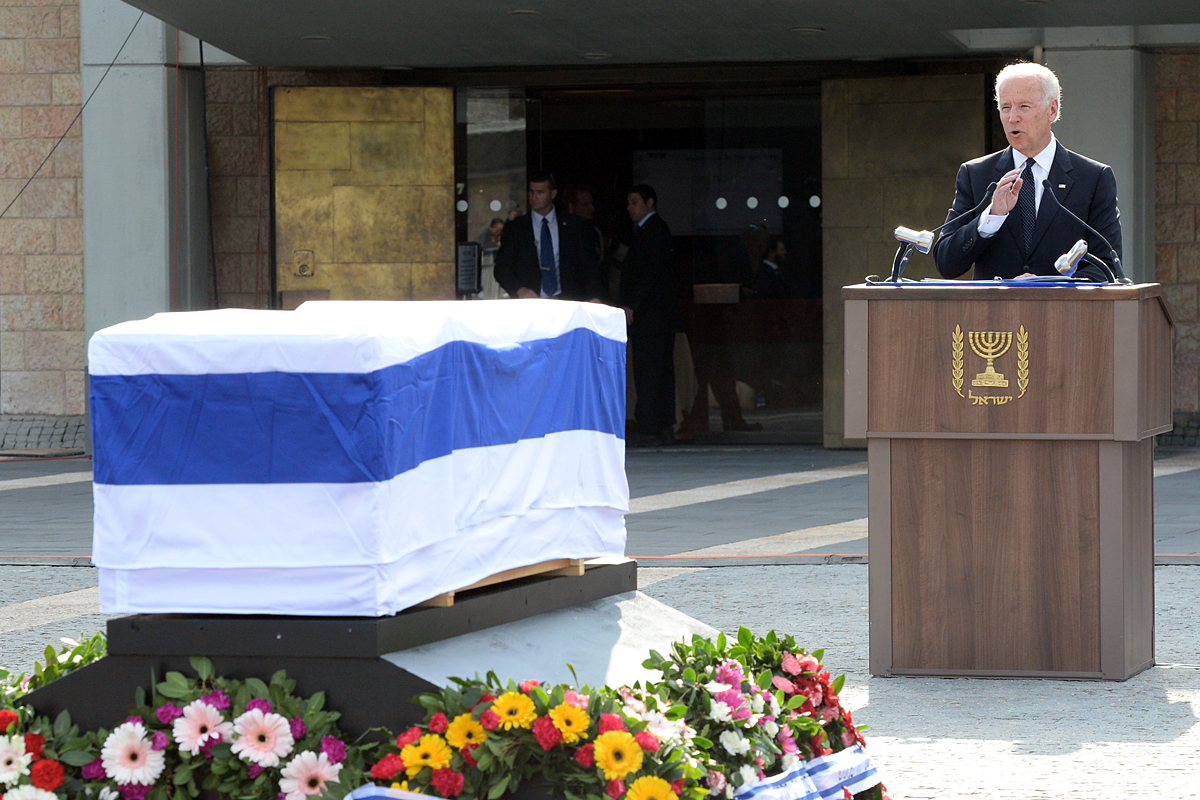 Vice President Joe Biden delivers remarks at the State Funeral of Former Israeli Prime Minister Ariel Sharon in Jerusalem on January 13, 2014. [State Department photo by Matty Stern/ Public Domain]